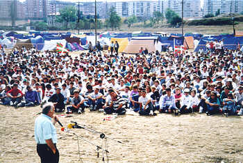 Alderdi Eguna´s speech for EGI members. Xabier Aralluz